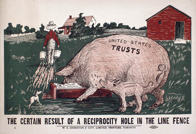 "When our interests clash, whose ox is likely to get gored?" Political cartoon suggests the imbalance of benefit from Reciprocity (Canadian politics) between the United States and Canada. The food in the pig trough reads "Canadian Raw Materials" Publisher: W. S. Johnston & Co. Ltd. (Toronto, Ontario, Canada)